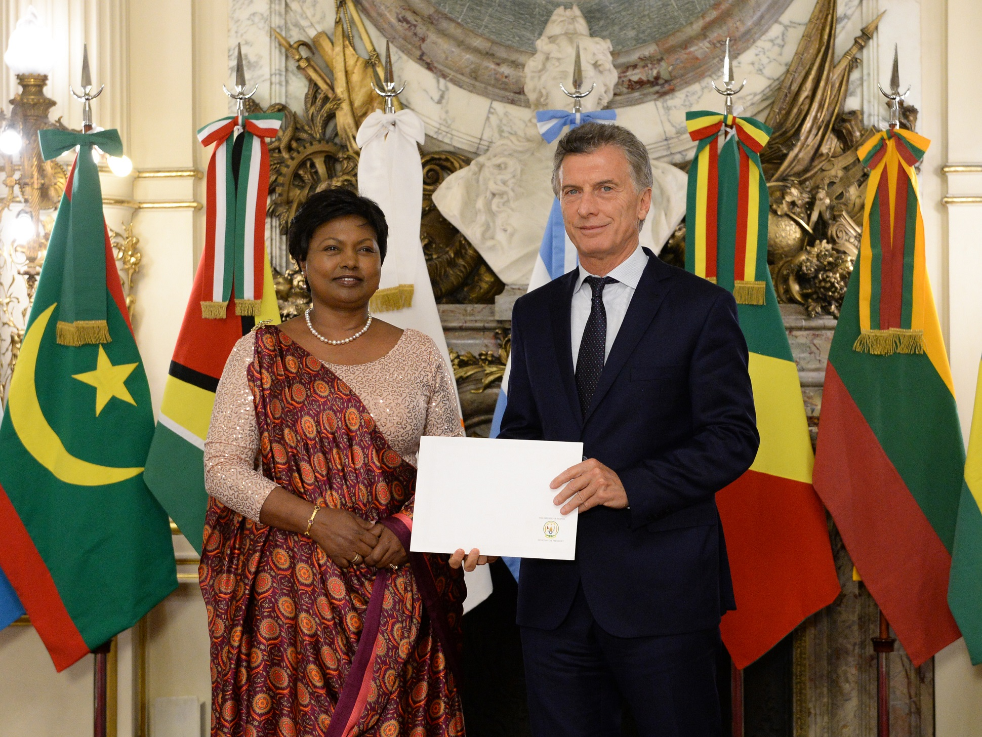 Mathilde Mukantabana presents her credential letters to Mauricio Macri.